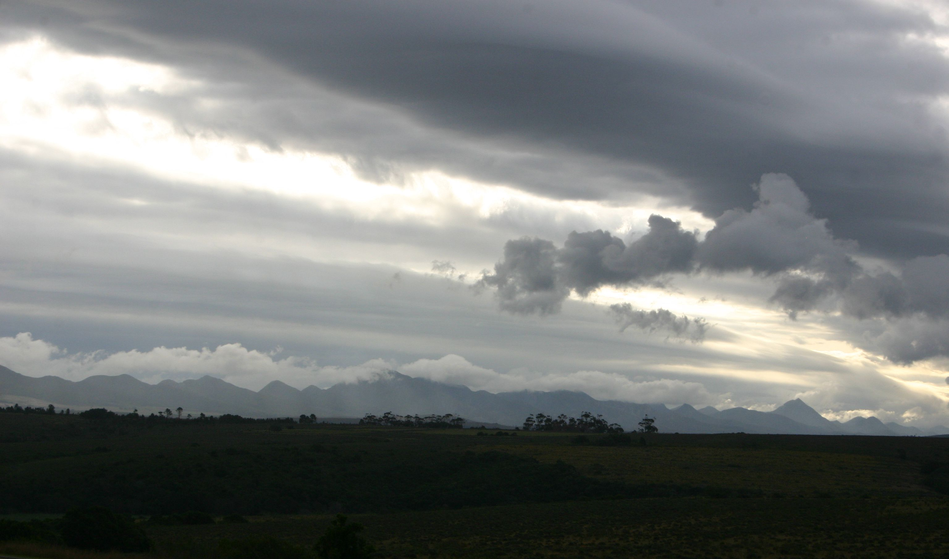 View north to Tsitsikamma Mountains from N2 highway near Kareedouw turn-off, Garden Route, South Africa